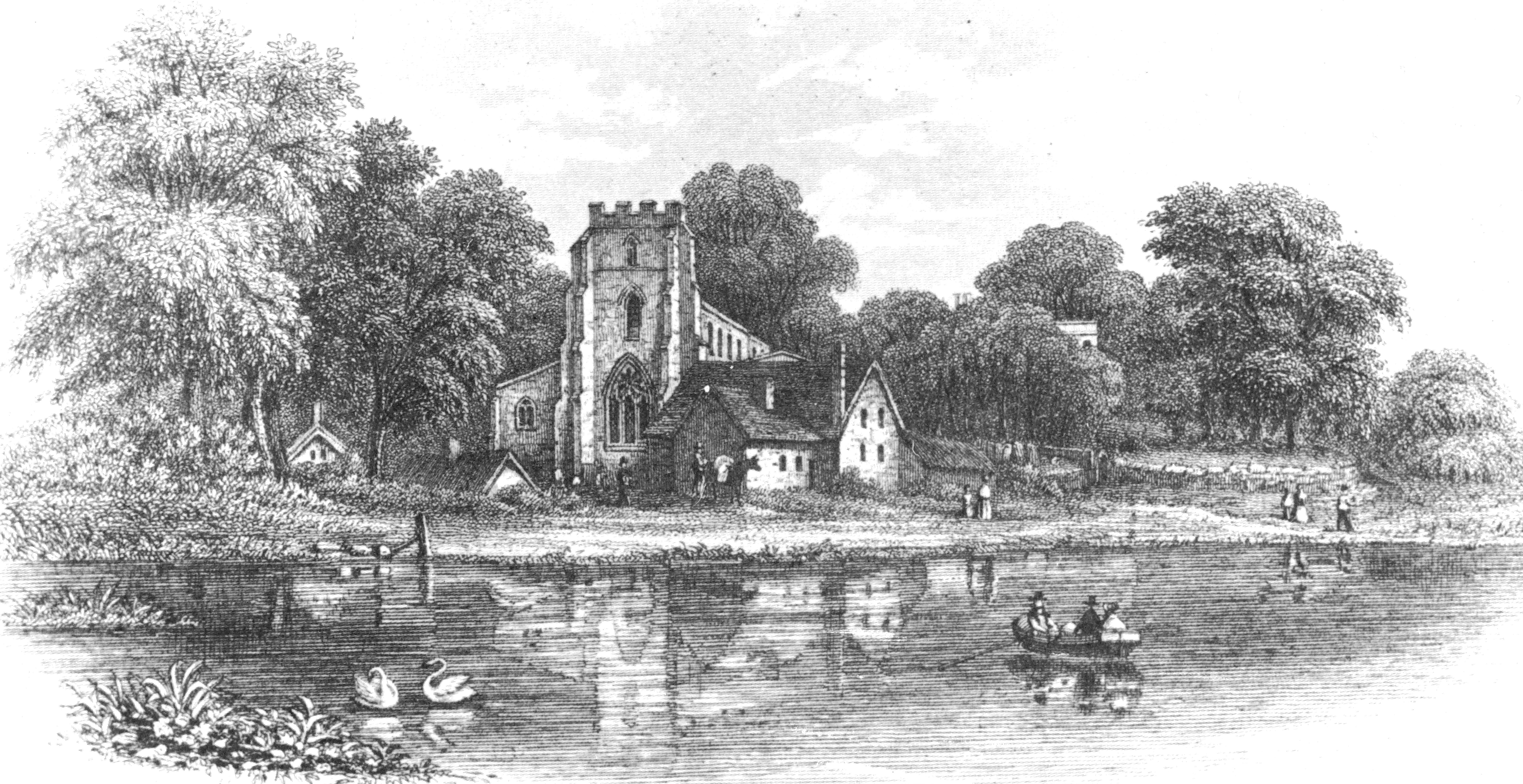 View from Stowe Pool west towards St Chad's Church. In front of St Chad's Church is Stowe Mill which had been in operation to ground wheat and corn since the 14th century, it was demolished in 1856 when the dam at Stowe Pool was built by South Staffordshire Waterworks Co.